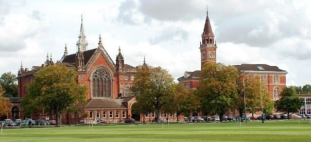 Dulwich College, College Road, Dulwich. West side of the oldest buildings, viewed from Alleyn Park.